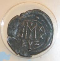 The backspacing of a Byzantine 40 nummi follis minted in Cyzicus, found on the island of Rhodes. The Grand Master's Palace collection. 6th-7th century.